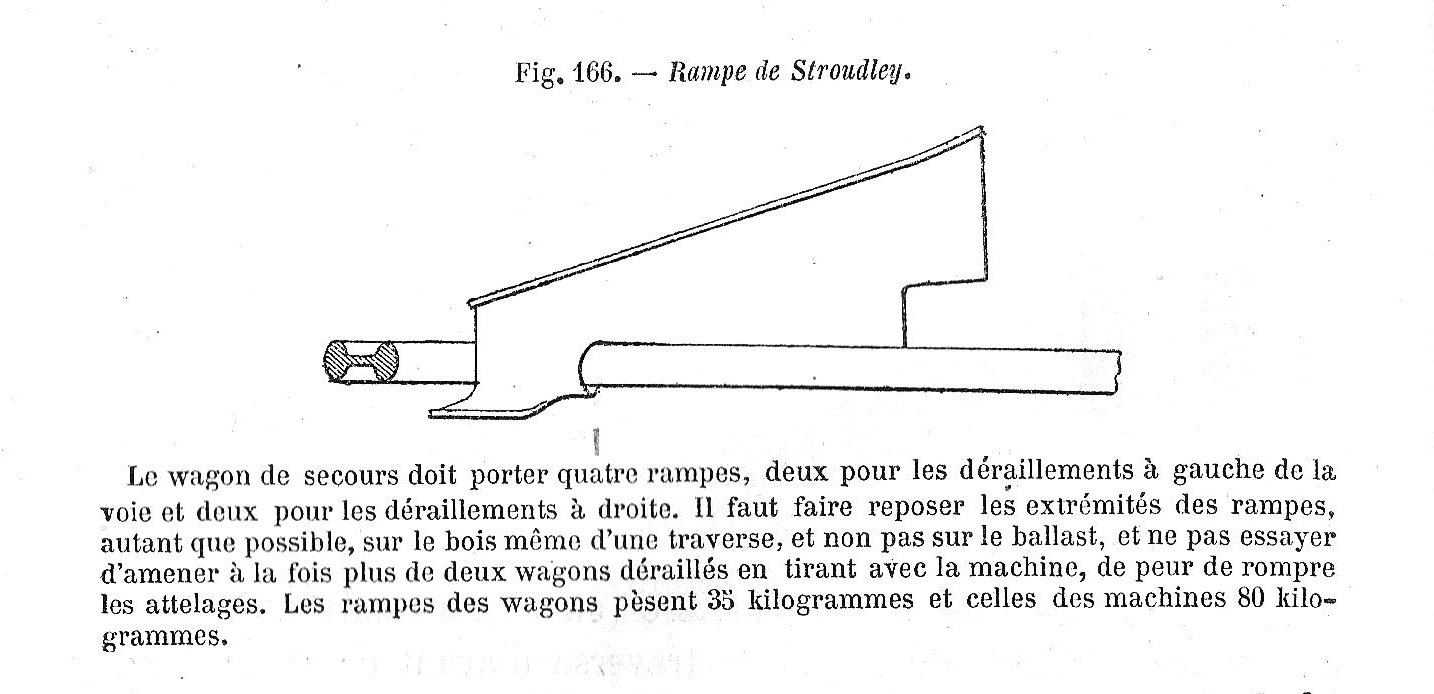 Scan of figure 166 in the book